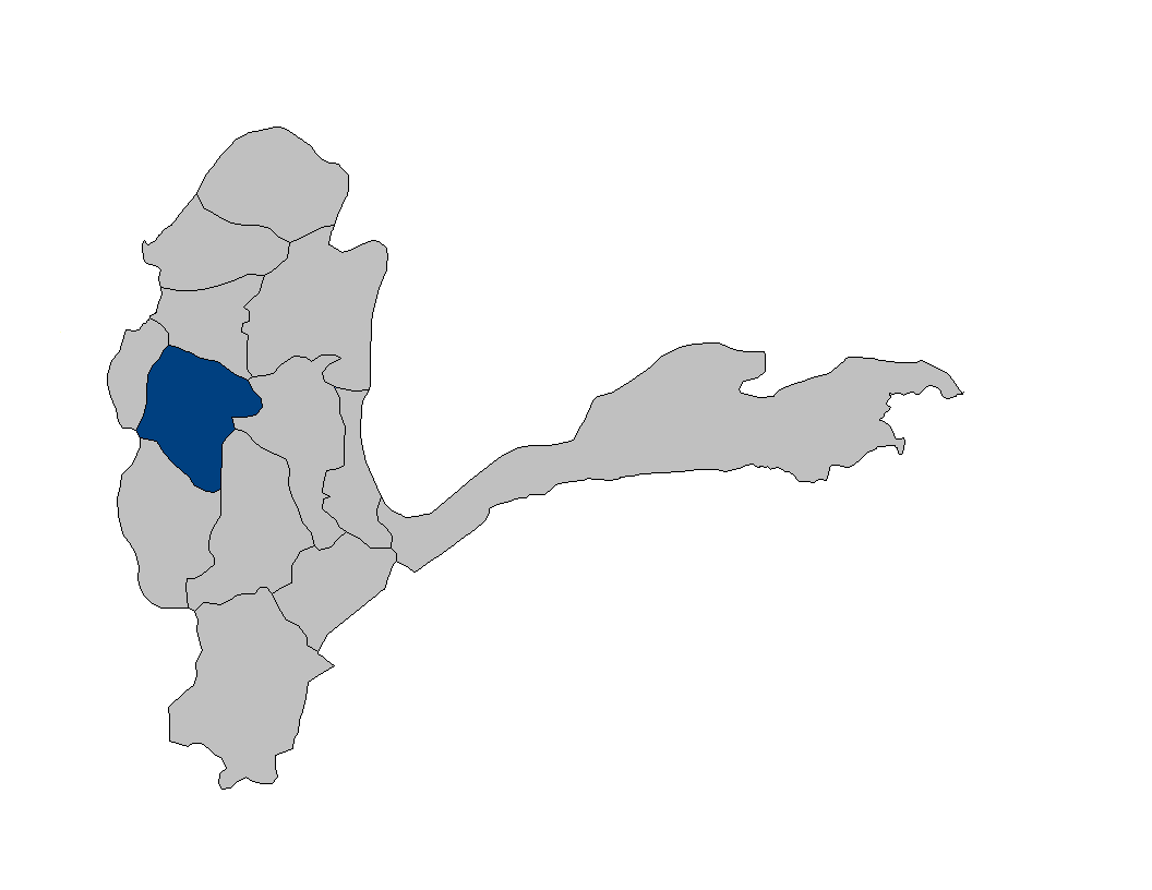 Location map for the Fayzabad District of Badakhshan Province, Afghanistan. Original map source: Image:Badakhshan districts.png